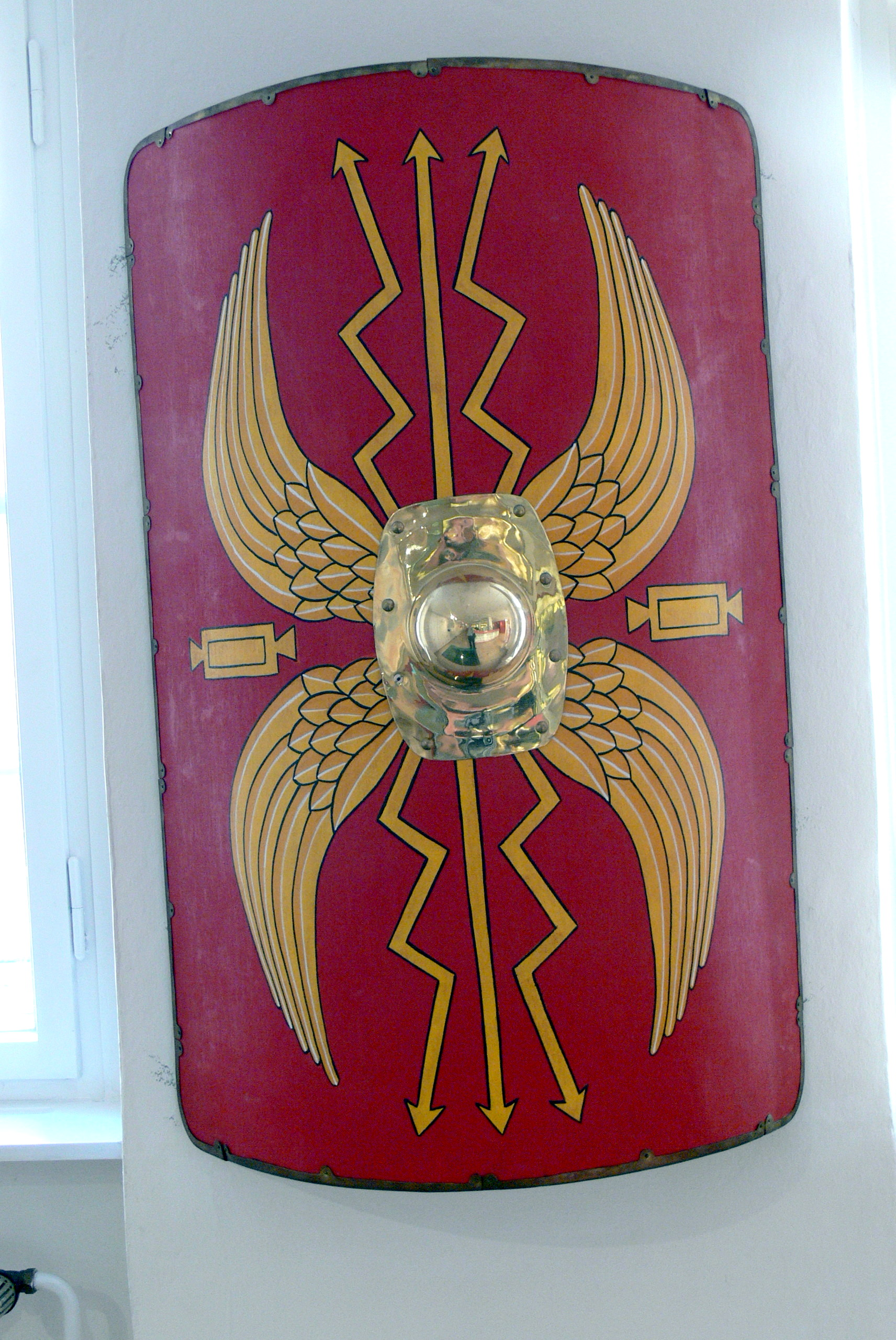 Weißenburg ( Bavaria ). Roman Museum: Reconstruction of an ancient Roman shield.